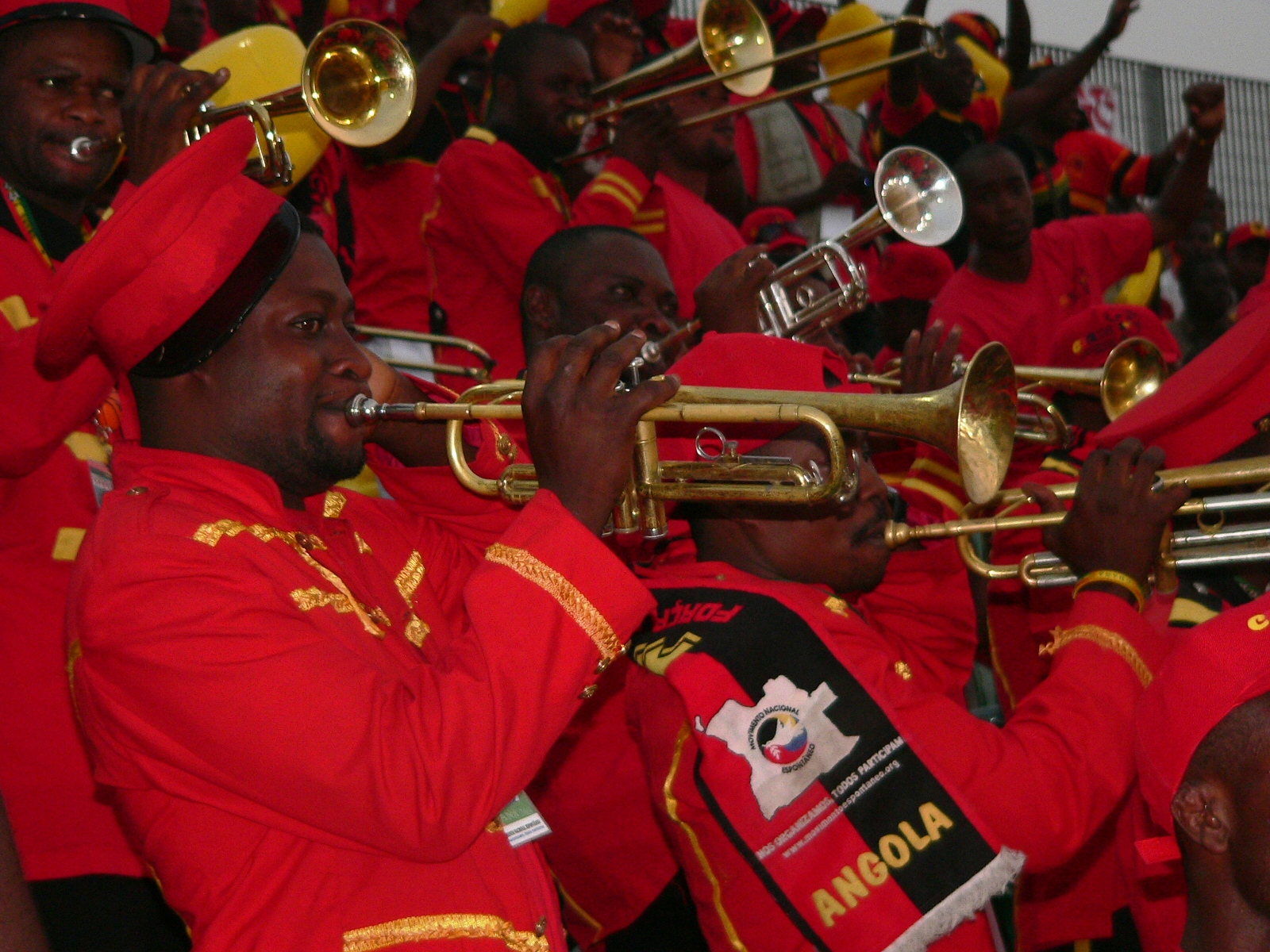 African Nations Cup 2008: Kumasi, Ghana.